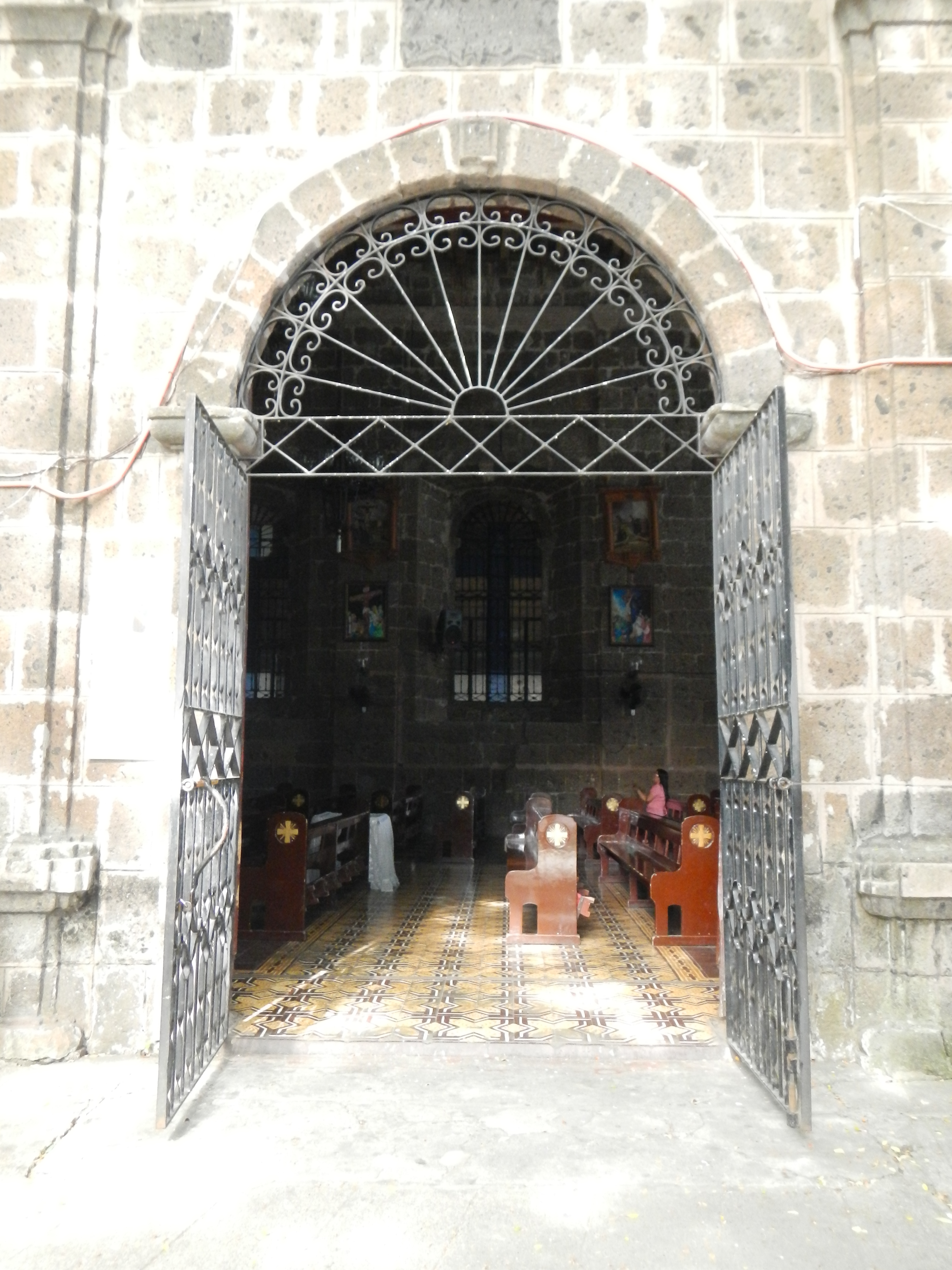 Rare, raw, unedited and original photos of the 1621 Sta. Ursula Parish Church[1]Binangonan, Rizal's major historical landmark is the 200 year-old Santa Ursula Parish Church; this town was separated and became an independent parish in 1621;[2] [3] [4] [5] [6] It belongs to the Roman Catholic Diocese of Antipolo[7] under the Vicariate of St. Jerome, Parish Priest: Rev. Fr. Rodrigo R. Eguia[8] Parochial Vicar: Rev. Fr. Francis M. Sarmiento [9] [10] Binangonan Catholic School is beside this Church and its Parish Rectory, Office.[11] [12] Map of Sta Ursula Parish Binangonan, Rizal 1940 Philippines Sta Ursula Parish Binangonan, Rizal 1940 Philippines is a place located at latitude (14.464903) and longtitude (121.193222) on the map of Philippines [13] Coordinates: 14°27'53"N 121°11'35"E -- Binangonan, Rizal[14] 1st class municipality and belong to district 1 of Rizal province. Binangonan is politically sub-divided into 40 barangays.Website Coordinates: 14°24'53"N 121°11'57"E [15] 'Pugot', other spirits haunt Binangonan mansion 10/30/2012 Giwang Giwang Festival of Binangonan Rizal ---------[N.B. June 2, Sunday day, 2013 Photography of Angono, Rizal[16], Binangonan, Rizal[17] and Cardona, Rizal[18]: 80% cloudy and 20% sunny weather using my Nikon AW 100 waterproof shockproof camera. From Bulacan at 10:45 a.m., I took photo at 12:25 pm of Goldenhills Jewelry of Antonio Z. Atienza, Jr.[19] in Robinsons Ortigas; and reached Angono, Rizal junction, crossing at 2:06 pm, then took photos of Binangonan Municipal Hall at 2:44 pm; I finished Cardona, Rizal photography at 5:17 p.m., and arrived at Bulacan at 9:30 pm after 3+ hours of travel by bus, and started uploading via slow internet at 9:50 pm - I hereby certify that these rarest, raw, original and unedited photos are exclusive for Commons and Wikipedia never uploaded in any Internet or any site, and for the public domain without any condition.]